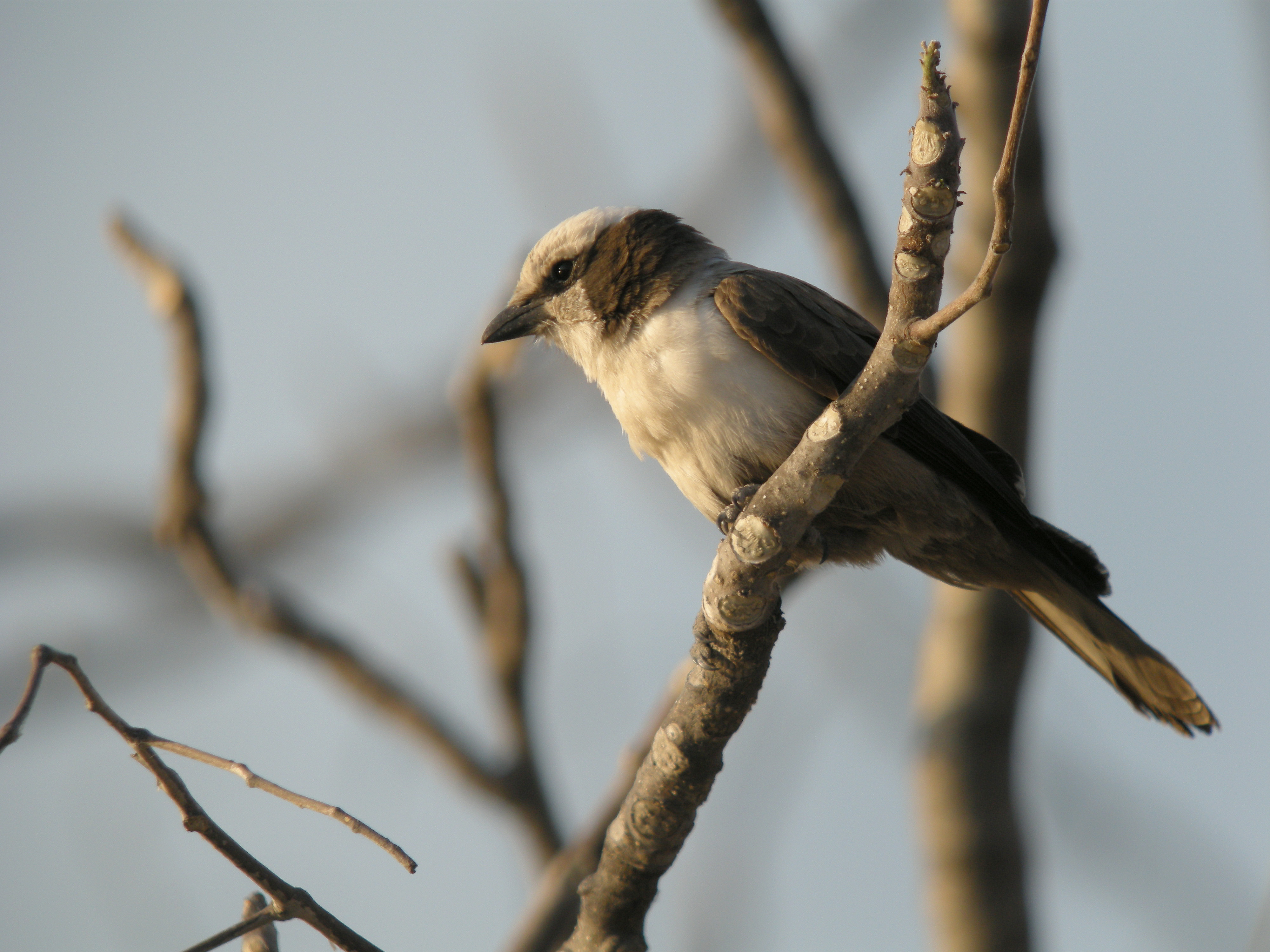 Southern White-crowned Shrike, Etosha National Park, Namibia Swarowski 80 HD 30 X, Coolpix P5100 (Adapter DCB)